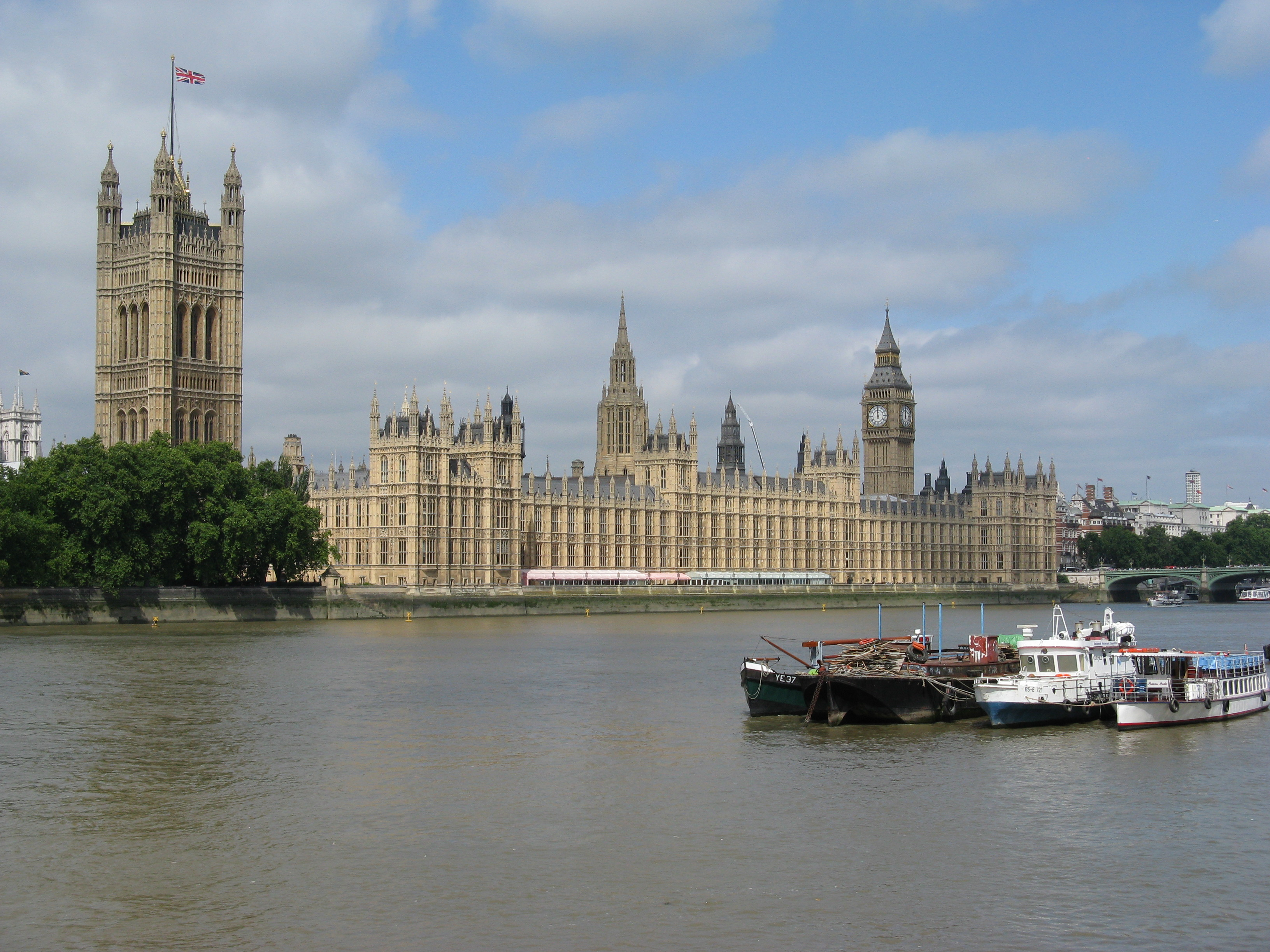 Palace of Westminste in London.